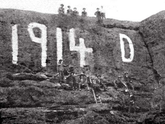 This photo was taken in 1914 of the Sugarloaf before it had the word "Dixie" painted on it.